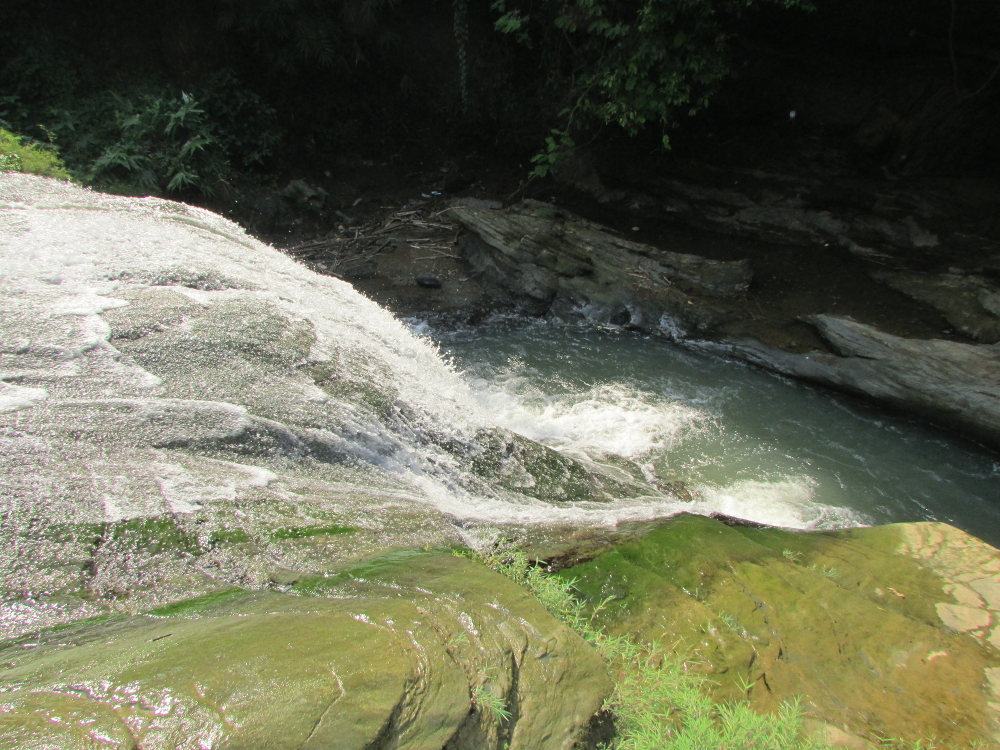 Shoilo Propat, this scenic water fall is a popular destination for the tourists